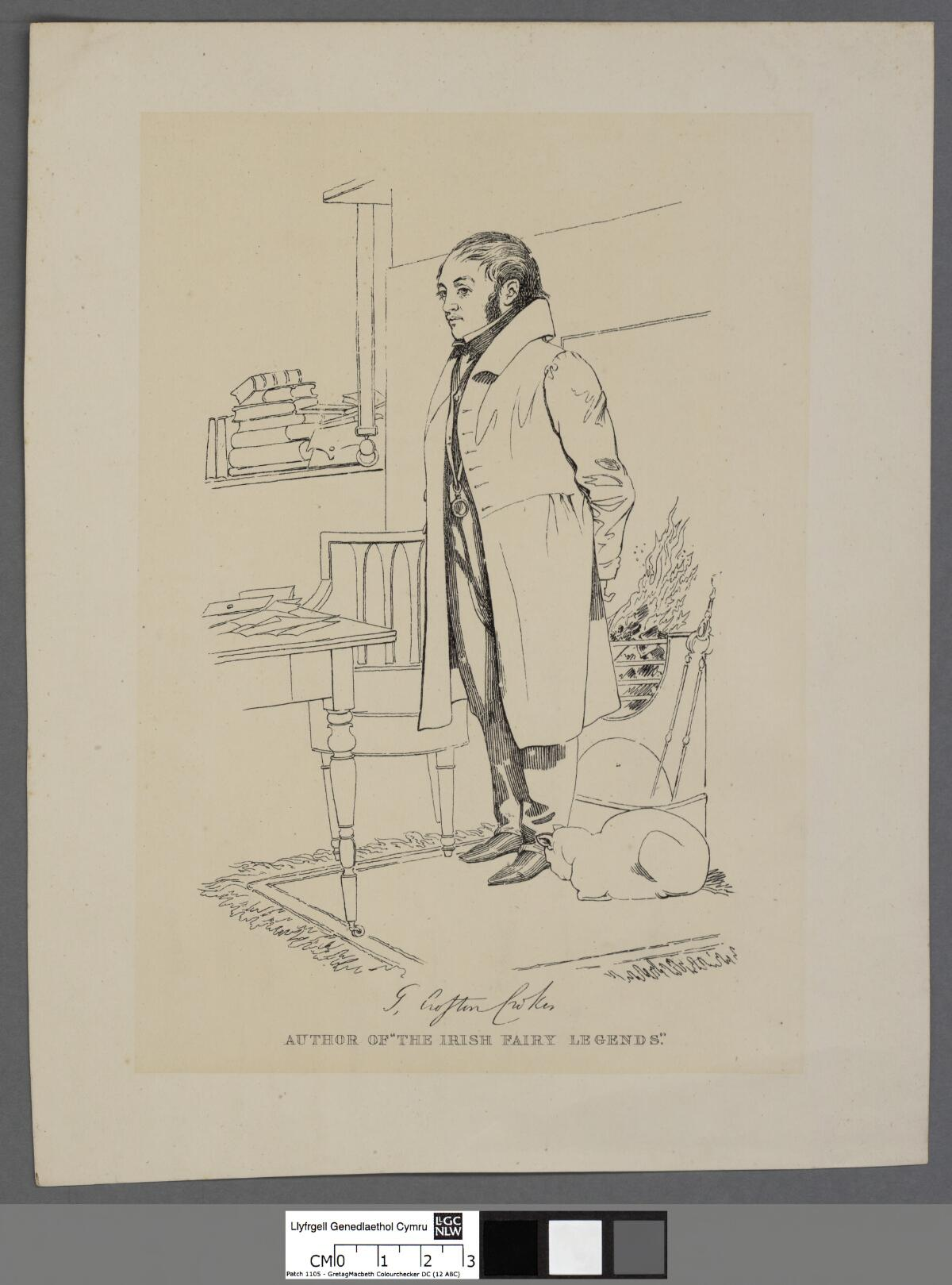 A portrait from the Welsh Portrait Collection at the National Library of Wales. Depicted person: Thomas Crofton Croker – Irish antiquary